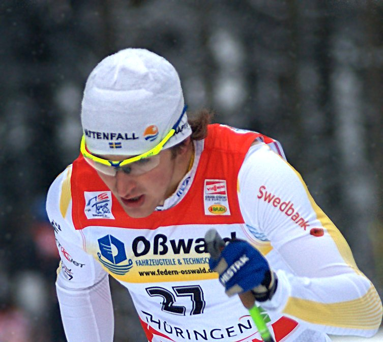 Teodor Peterson at the Tour de Ski 2010 in Oberhof